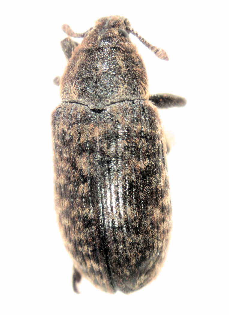 adult Rhinocyllus conicus